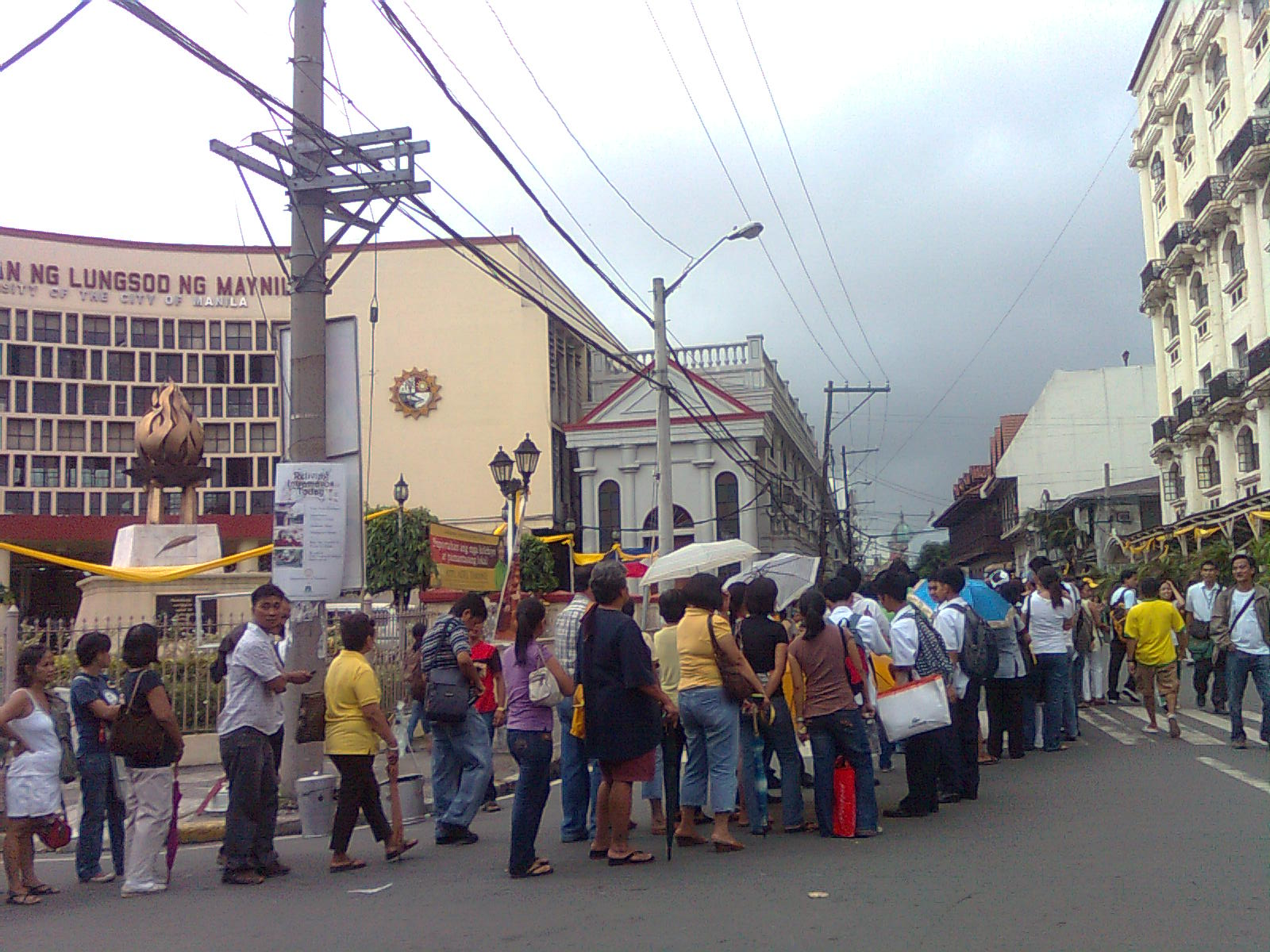 Line at the Corazon Aquino wake going to the Manila Cathedral in front of the Pamantasan ng Lungsod ng Maynila campus. The Cathedral is the green dome in the background.